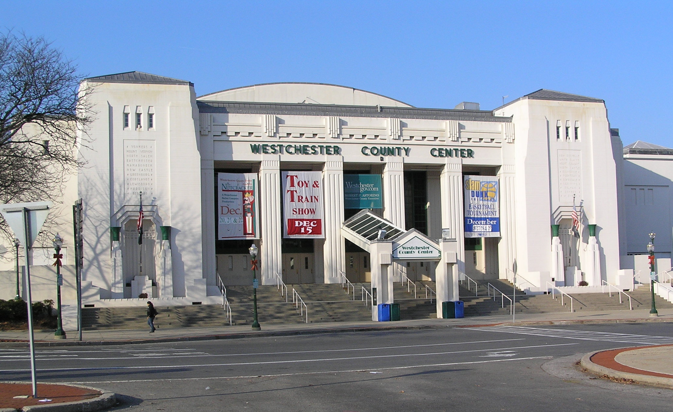 a photograph of the Westchester County Center in White Plains, NY